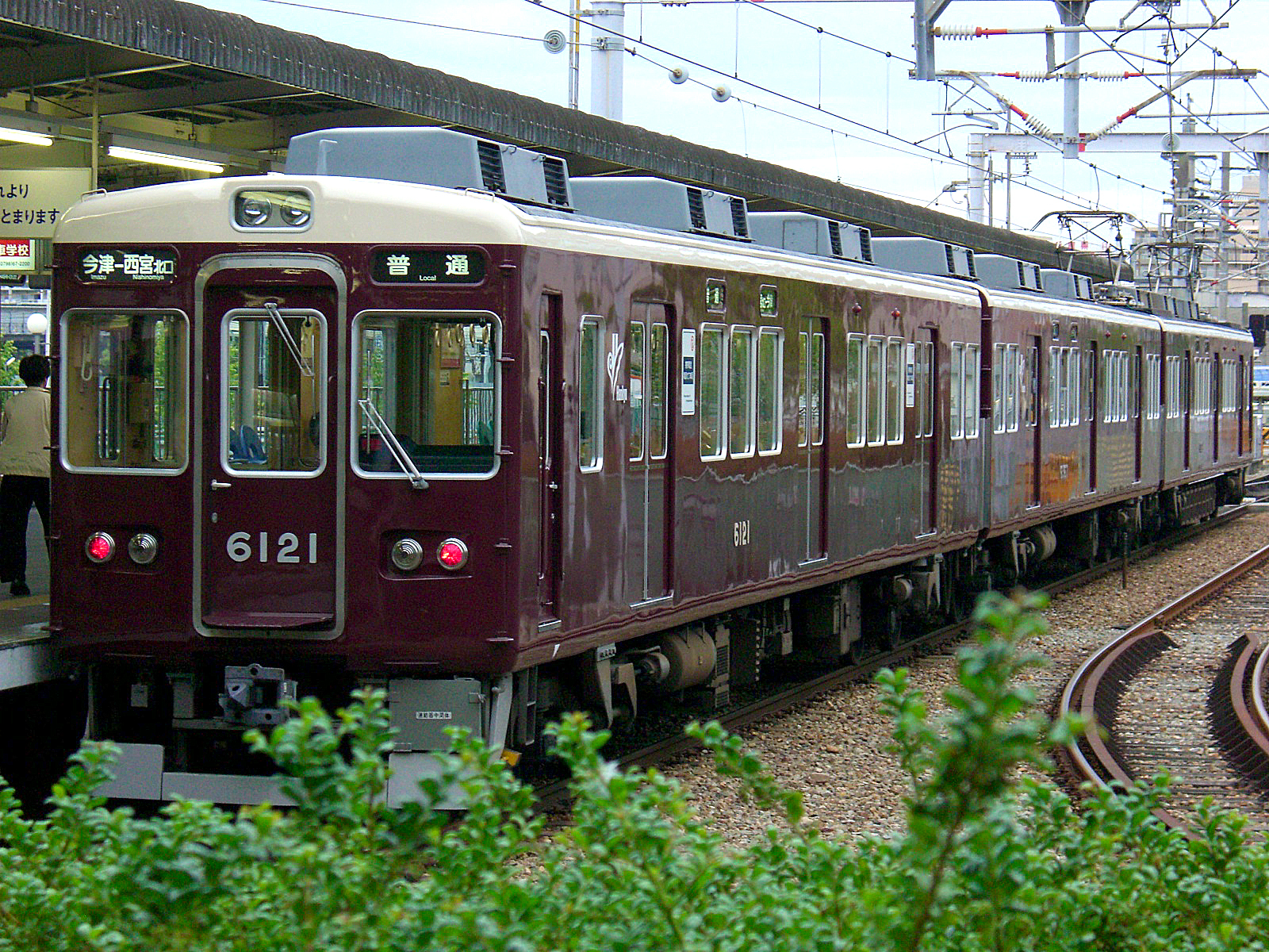 Hankyu Railway 6000series 3 cars One-man operation version 阪急電鉄 6000系電車 3両編成ワンマンカー仕様